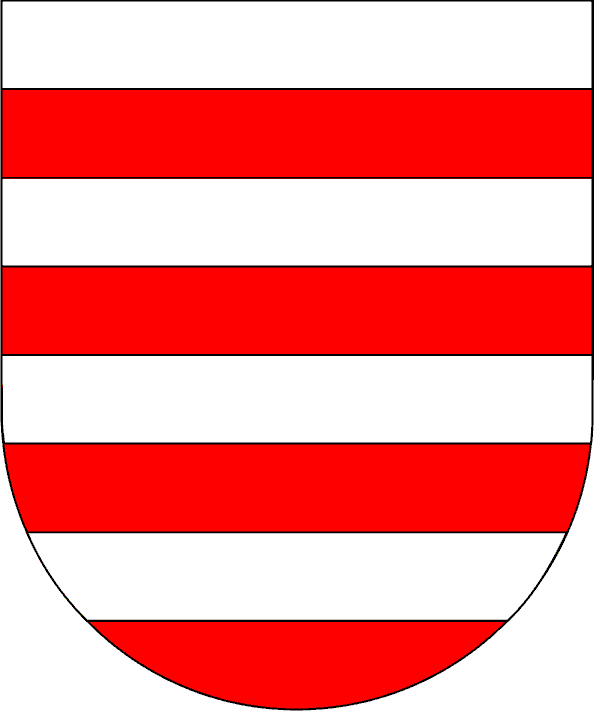 coats of arms of the lordship pf Querfurt